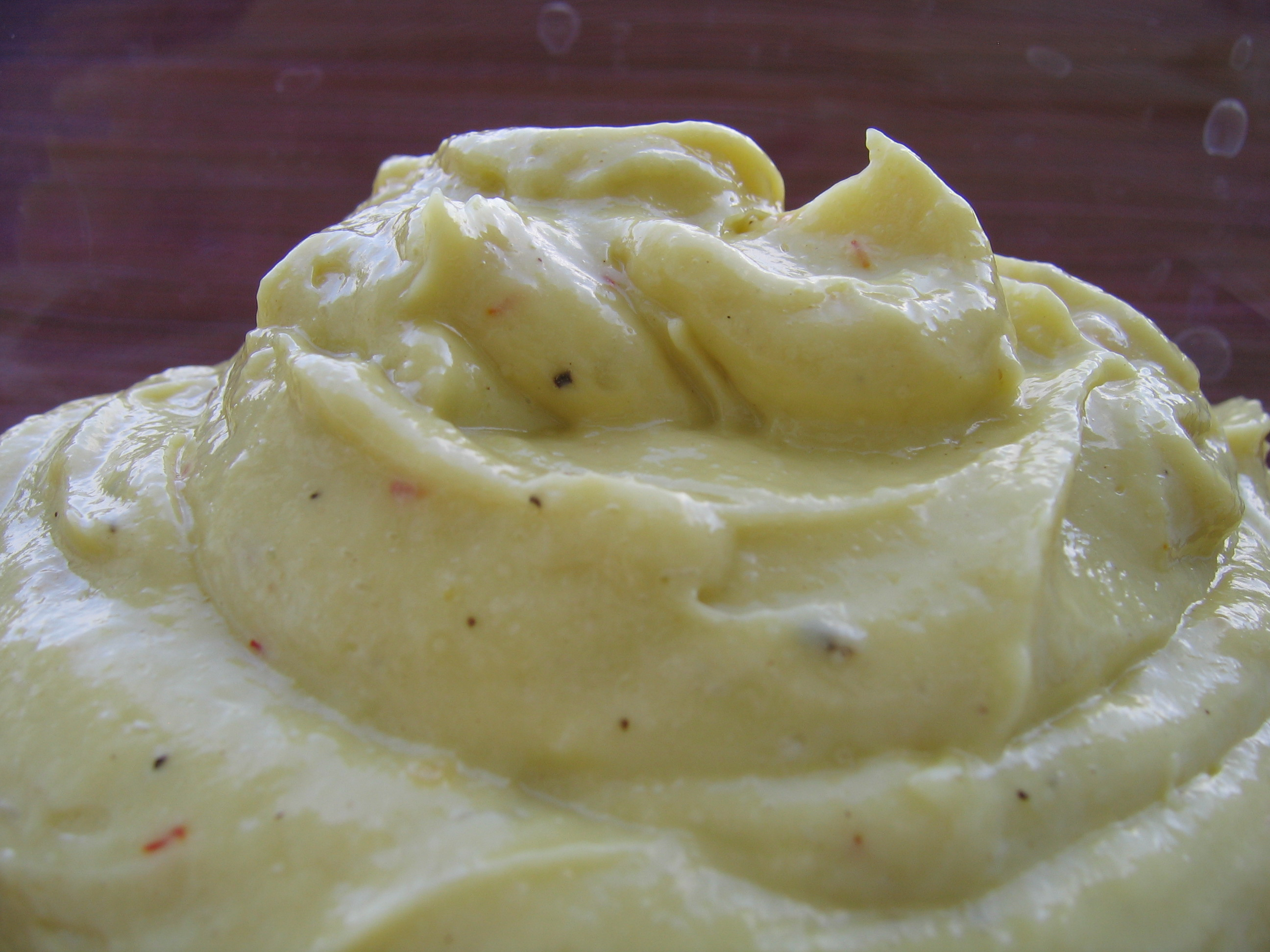 Rouille sauce. Rouille sauce made at home in Munich, Germany by the photographer, Marion Deveaud, in the summer of 2007. The recipe comes from a cookbook by the French chef Bernard Loiseau. The recipe (in French) may be found here: Ingredients include: 2 cloves of garlic 2 small hot red peppers 1 thick slice pain de mie (white bread) 1 egg yolk 20 cl olive oil 2 tablespoons fish bouillon 1g powdered saffron (optional)